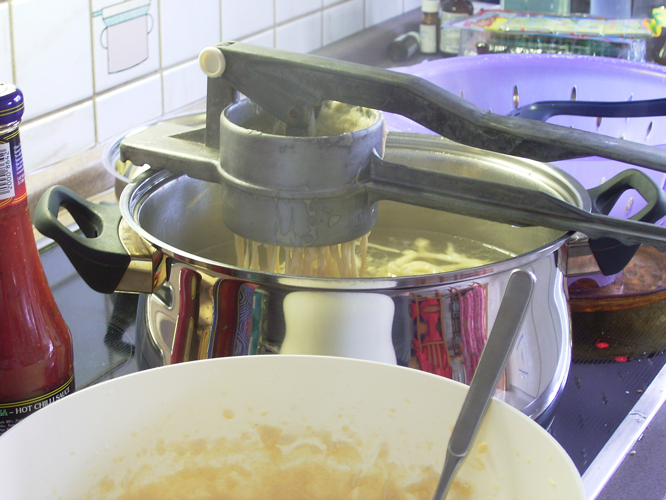 A Tool to make Spaetzle during the making Prozess